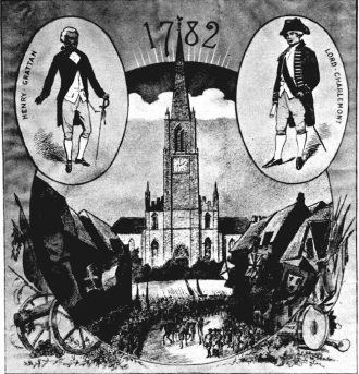 A print of a painting commemorating the Dungannon Convention of 1782